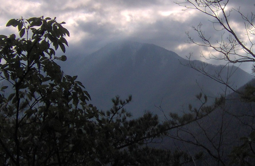 Mount Le Conte, viewed from the knob at the northern tip of Sugarland Mountain in the Great Smoky Mountains of East Tennessee, in the southeastern United States. This "window" in the foliage is appx. 1 miles from the trailhead.